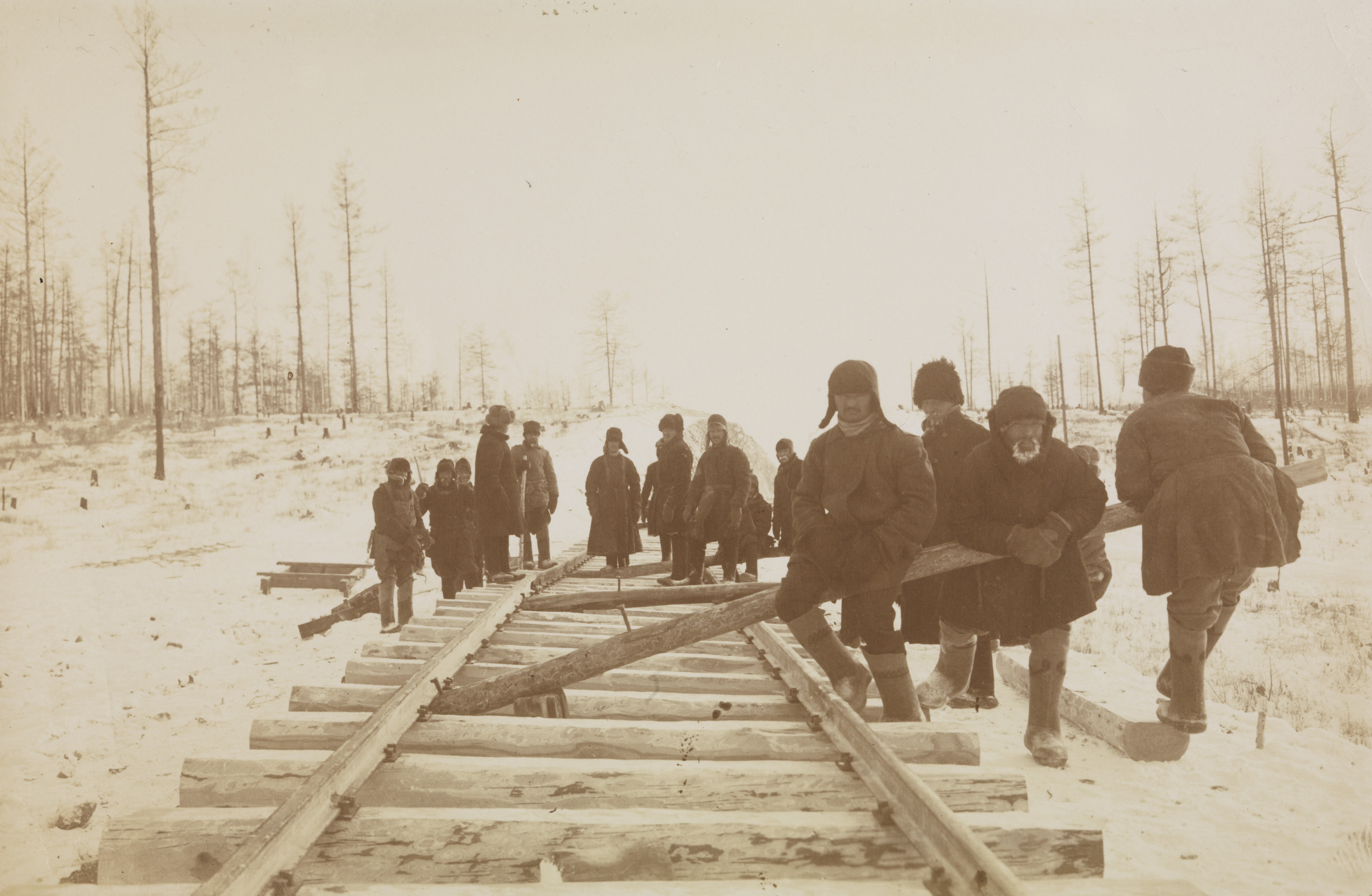 Convicts, who were used for railroad construction in Siberia, are here putting down the railroad tracks. One of the pictures from the journey to Siberia between Aug. 2 and Oct. 26, 1913. Fridtjof Nansen continued his trans-Siberian journey by railroad, some of it recently finished, from Krasnoyarsk all the way to Vladivostok.